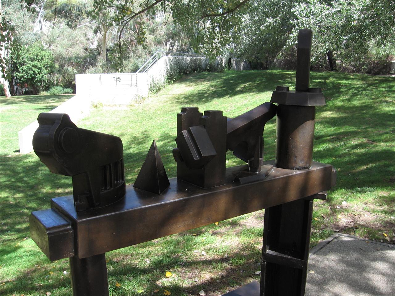 Number 751 (1989) by Robert Klippel (1920-2001) bronze cast 1997 by Meridian Foundry, Melbourne